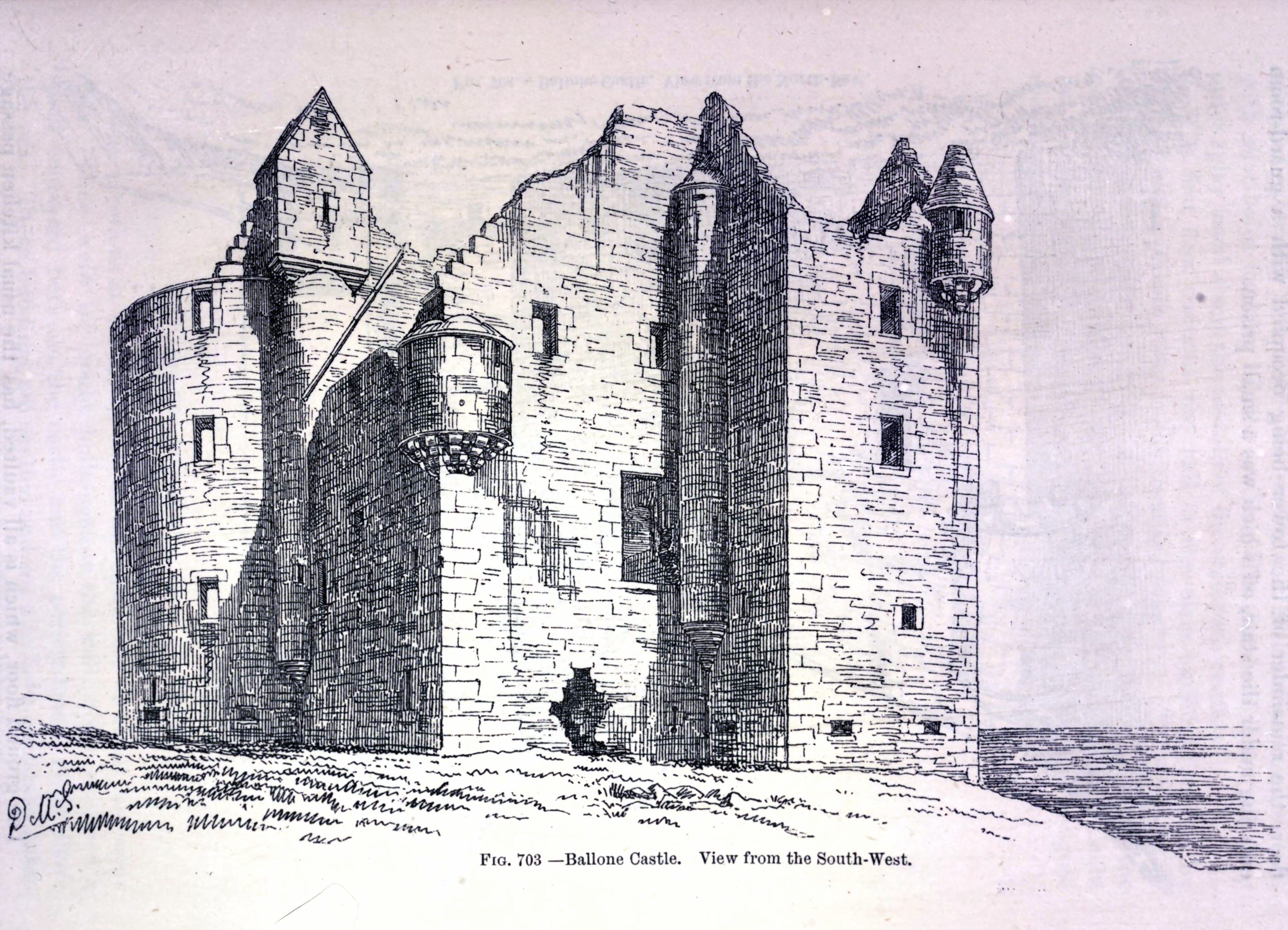 Ballone Castle, Tarbat-peninsula, Highlands, Scotland. View from southwest.